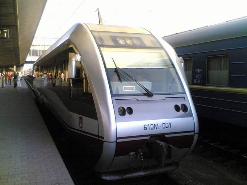 Train of South-West Railway Head at Station in Kiev